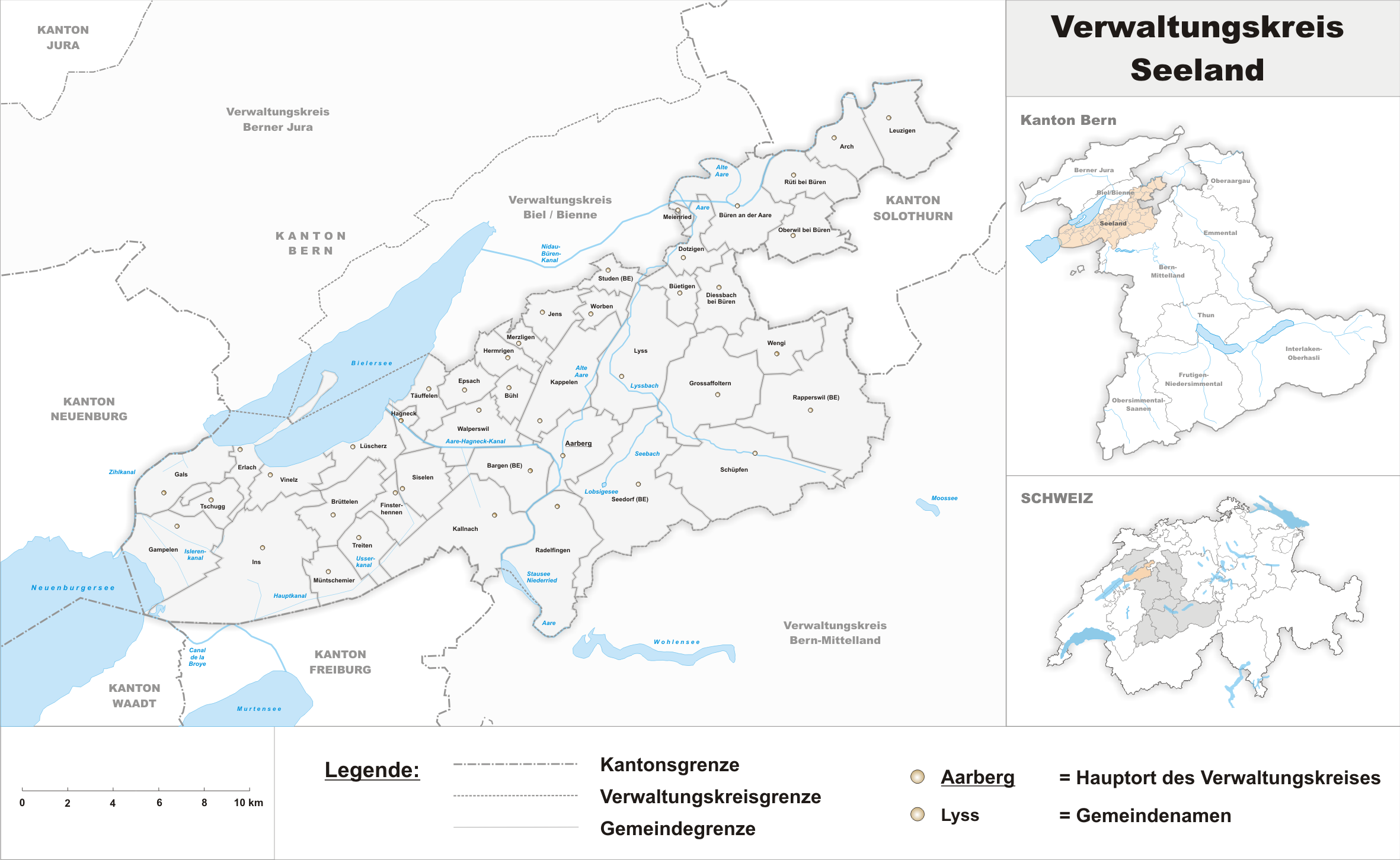 Municipality in the District of Seeland